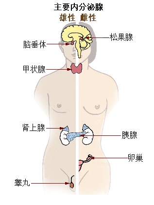 Location of major endocrine glands